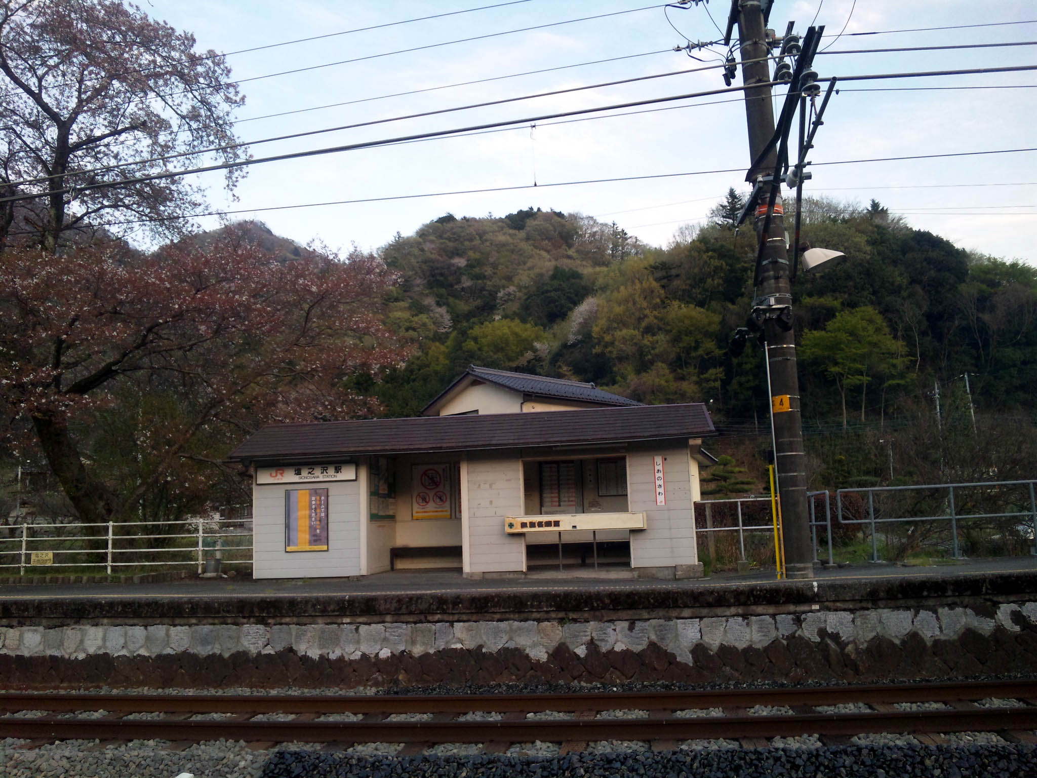 Shionosawa Station on Minobu Line